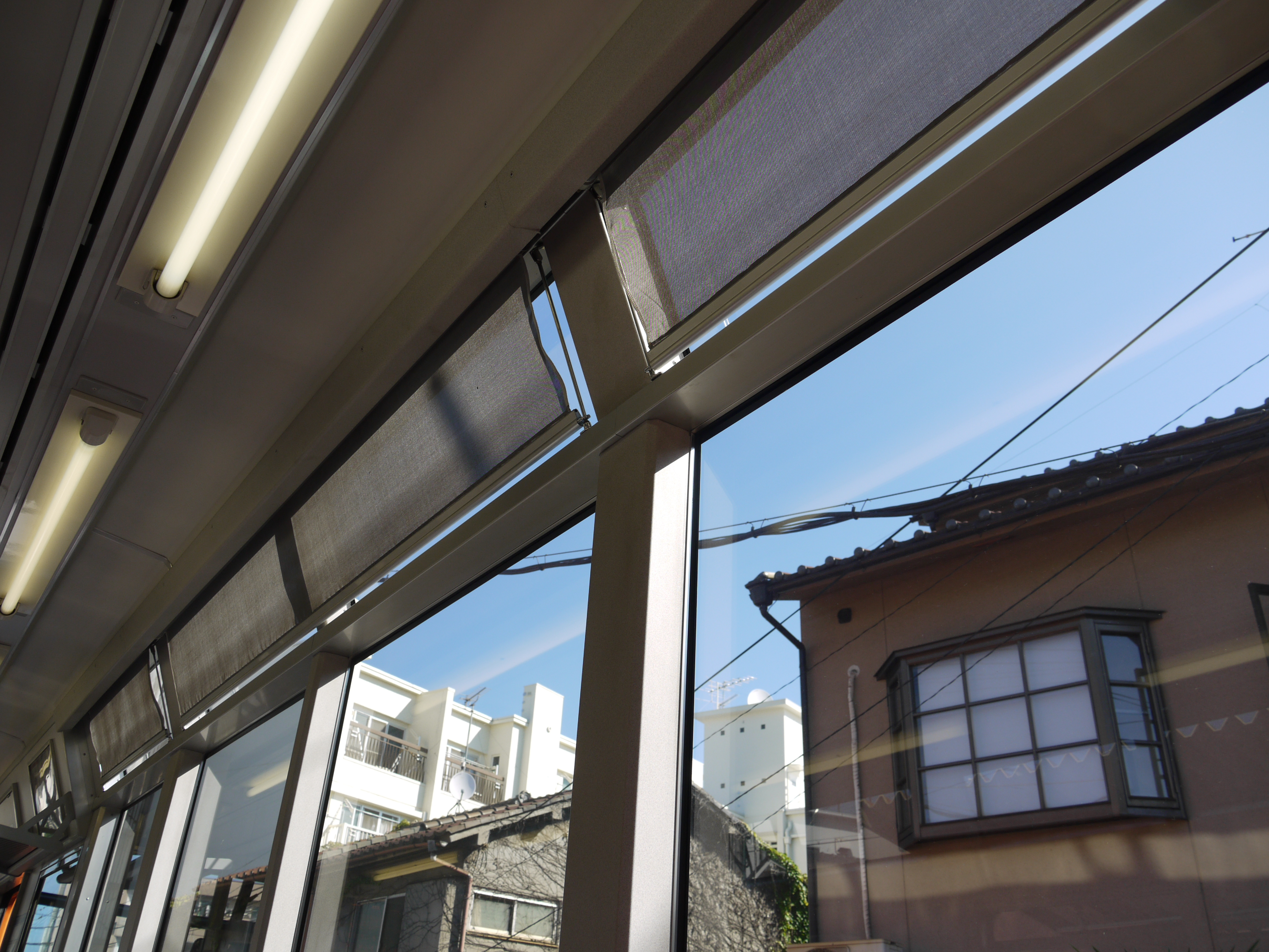 Roof windows on Eizan Electric Railway 900 series, curtains for roof windows are closed.